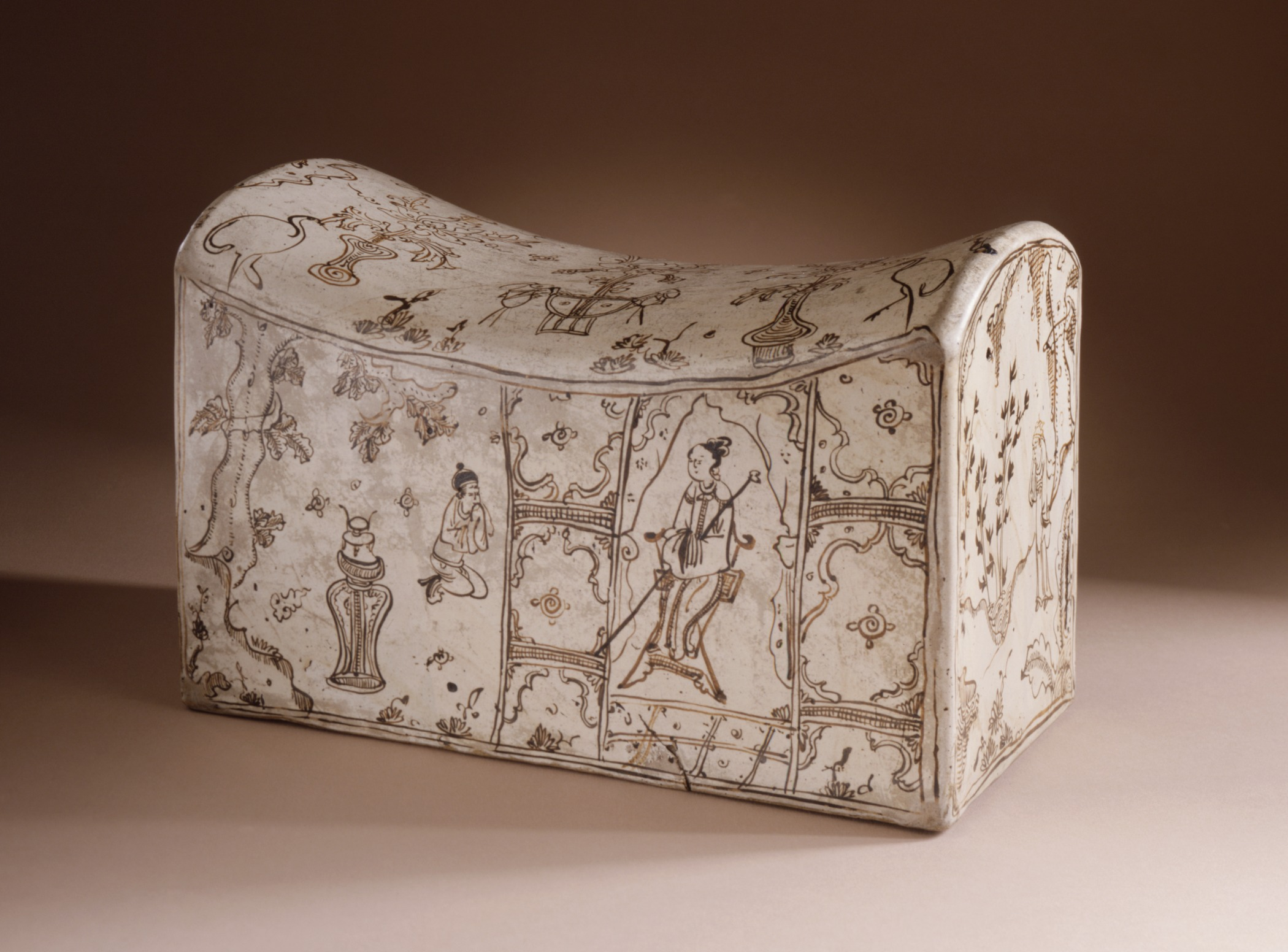 China, Chinese, Ming dynasty, 1368-1644 Furnishings; Furniture Cizhou ware; slab-built stoneware with cream slip, brown painted decoration, under transparent glaze 7 1/4 x 11 1/2 x 5 1/2 in. (18.42 x 29.21 x 13.97 cm) Gift of Nasli M. Heeramaneck (M.73.48.83) Chinese Art